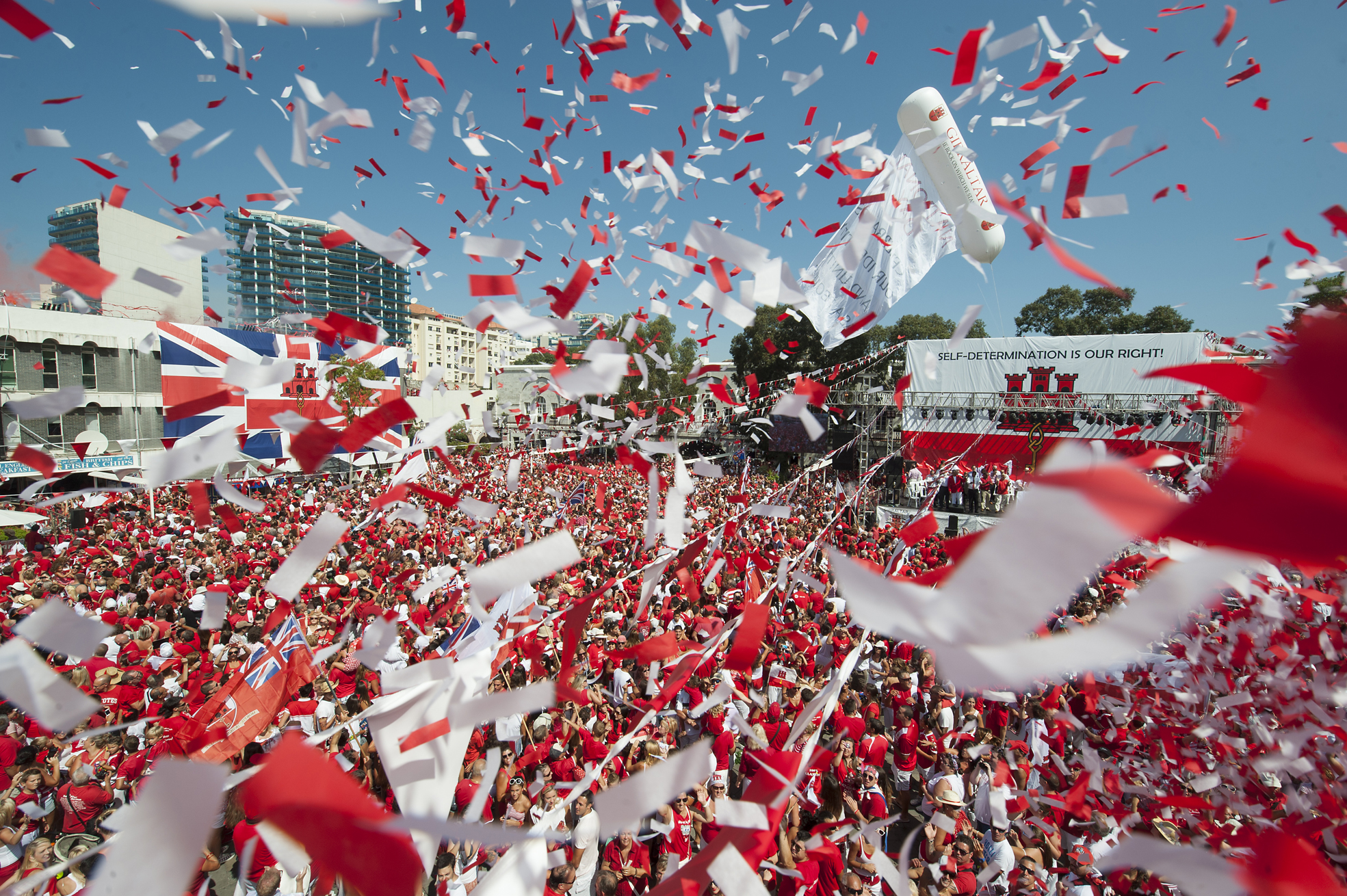 Gibraltar National Day_028